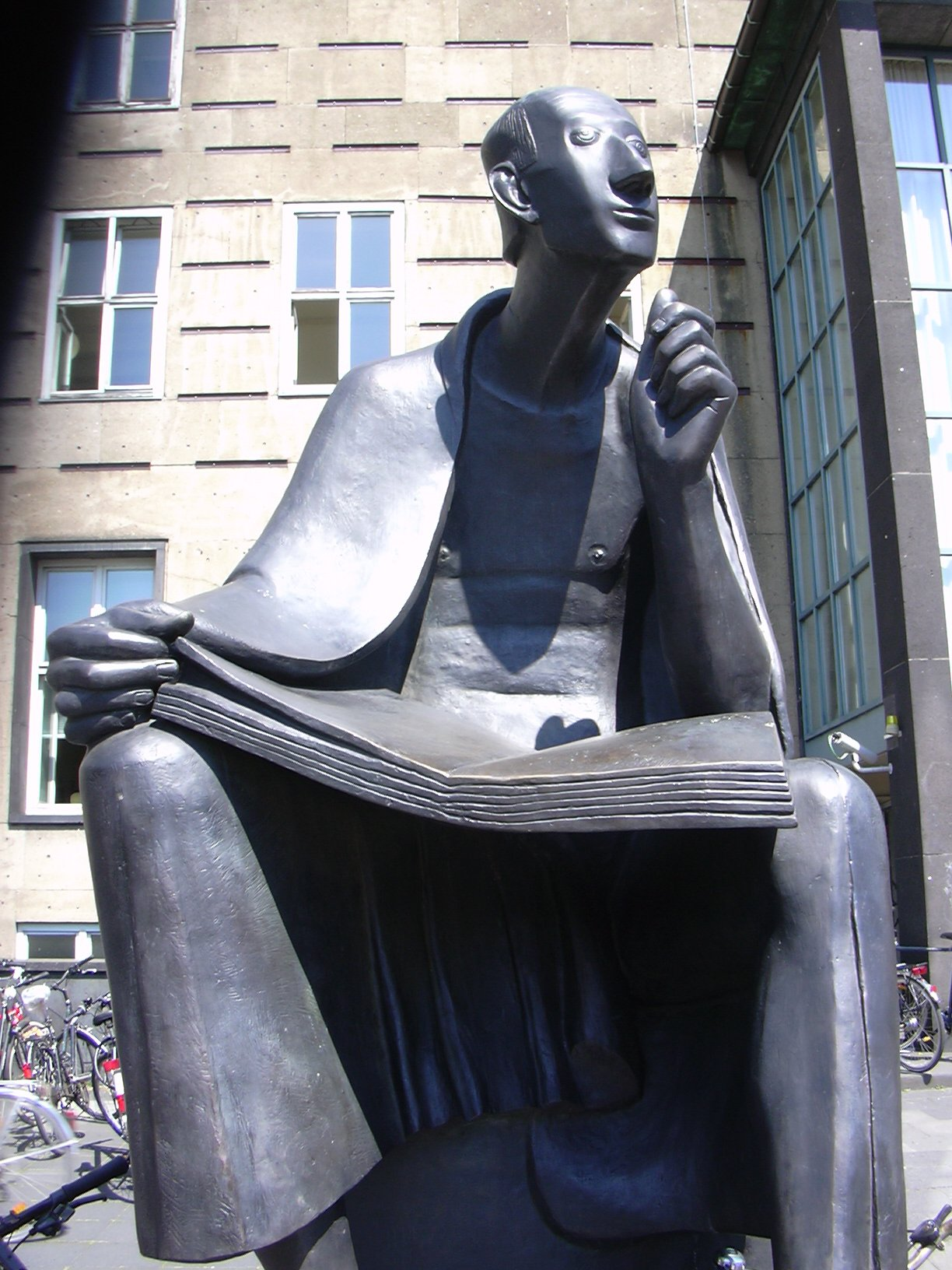 Albertus Magnus Denkmal von Gerhard Marcks vor der Universität zu Köln auf dem Albertus-Magnus-Platz (see also this big picture) This is a photograph of an architectural monument. Gerhard Marcks (1889–1981) DescriptionGerman sculptor and graphic artistDate of birth/death 18 February 1889 13 November 1981 Location of birth/death Berlin BurgbrohlAuthority control : Q61507 VIAF: 22414432 ISNI: 0000 0000 8101 6573 ULAN: 500029431 LCCN: n80121120 GND: 118577573 WorldCat creator QS:P170,Q61507